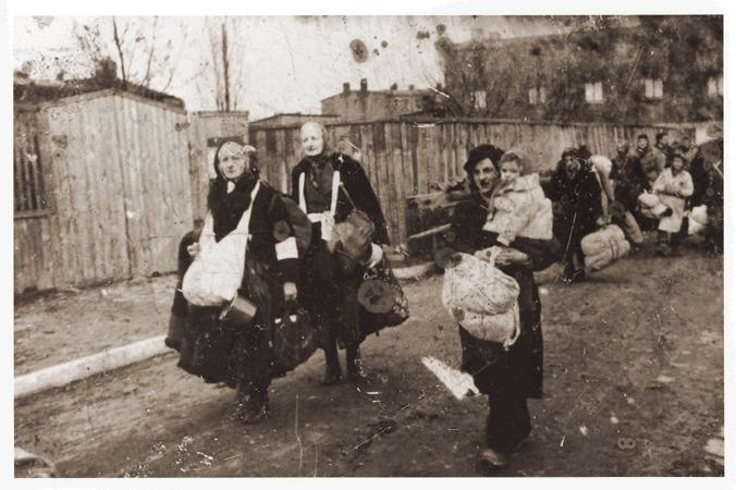 Ghetto Litzmannstadt: Ghetto residents head toward the trains that will take them to Chelmno.